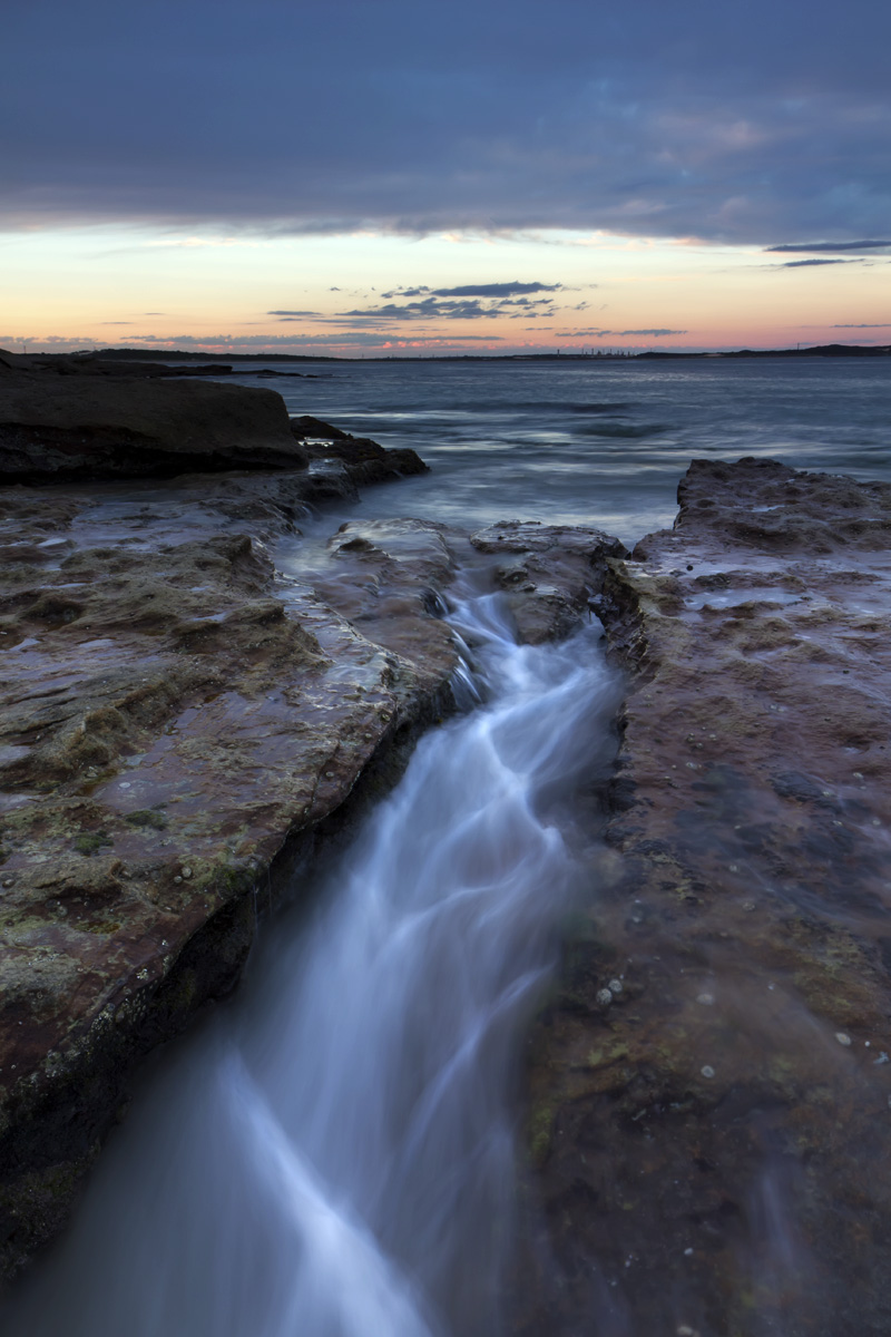 Another shot from my dash over to Cronulla on Friday afternoon. I discovered this little surge channel on my favourite beach. As the waves were hitting the shore the water was surging down this small channel, filling it then draining back out again. Honestly, I don't think I will ever get bored shooting this beach, it changes everytime I am there, so many opportunities. 8 IS USM Focal Length: 17mm Filters: Cokin P121M